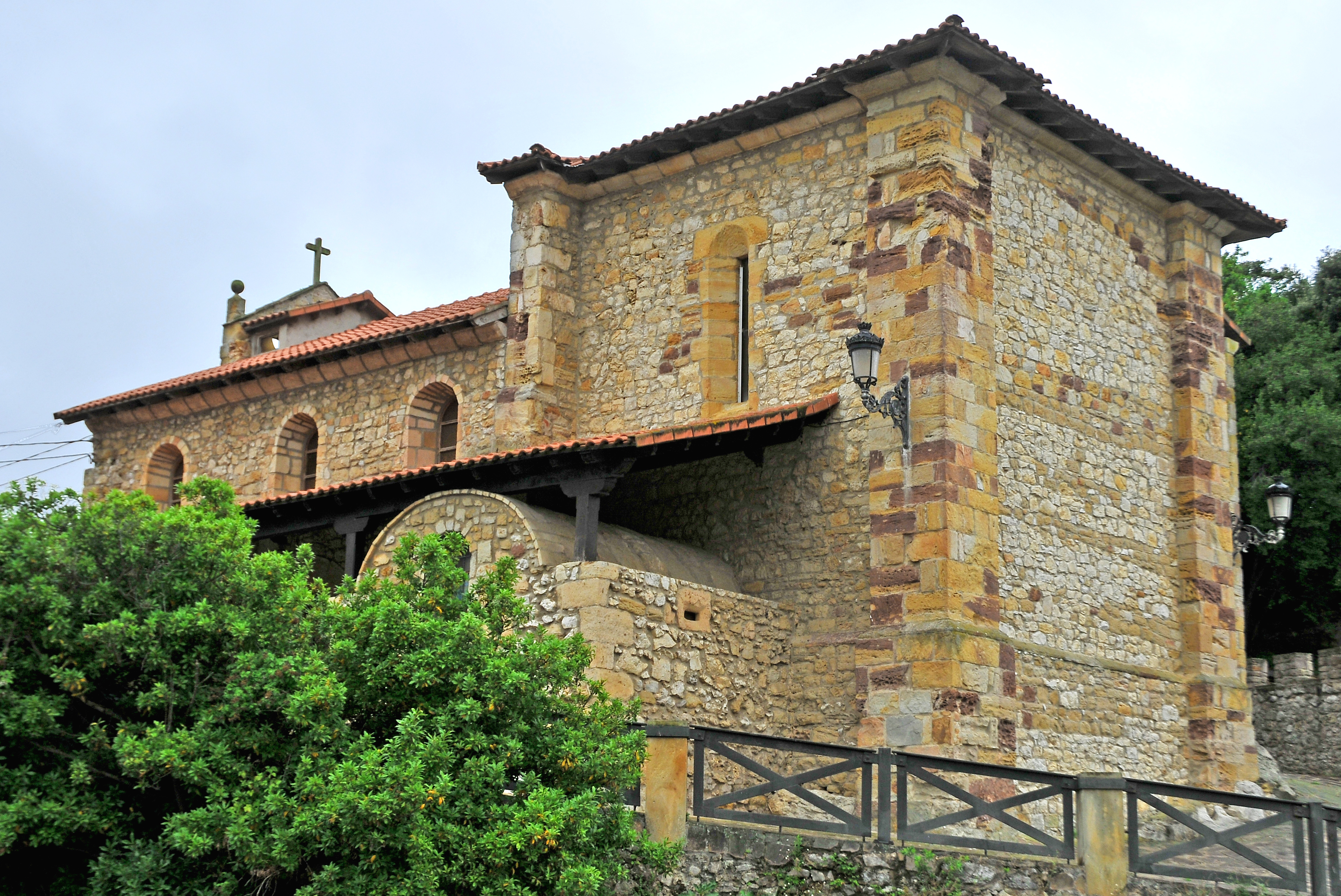 St. John the Baptist Church. Cuchía, Miengo, Cantabria, Spain